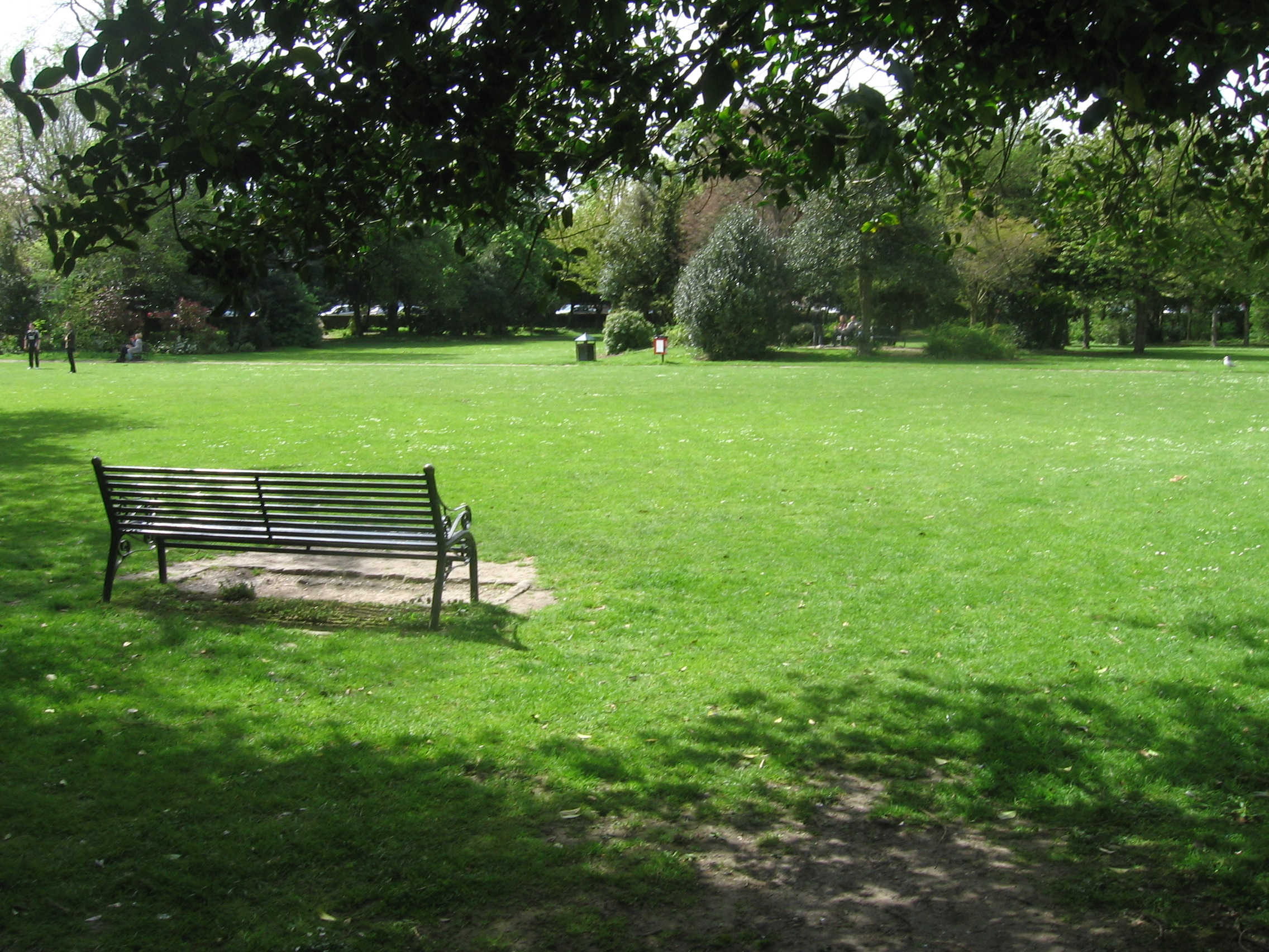 Upperton Gardens, Eastbourne